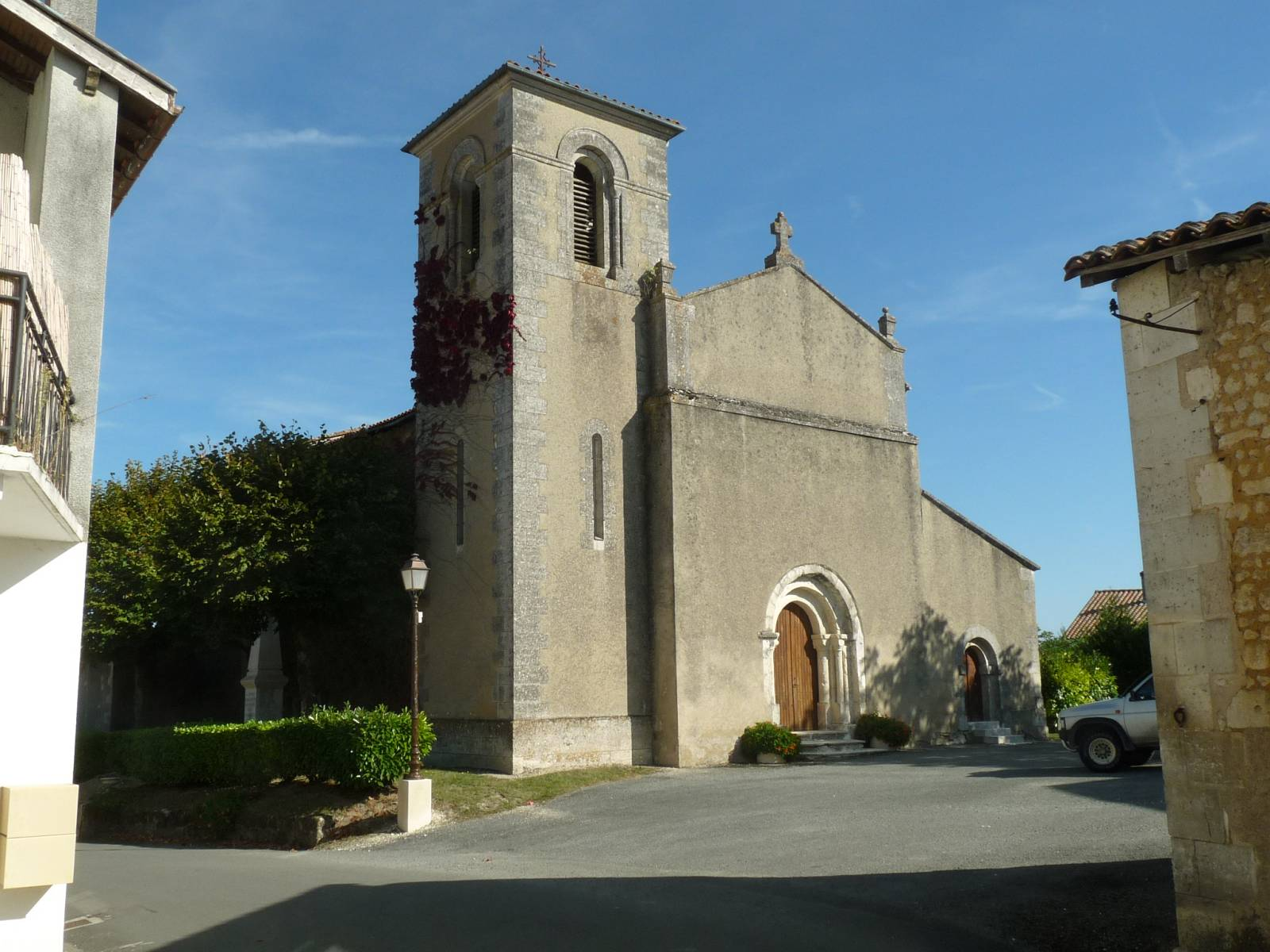 church of St-Romain, Charente, SW France